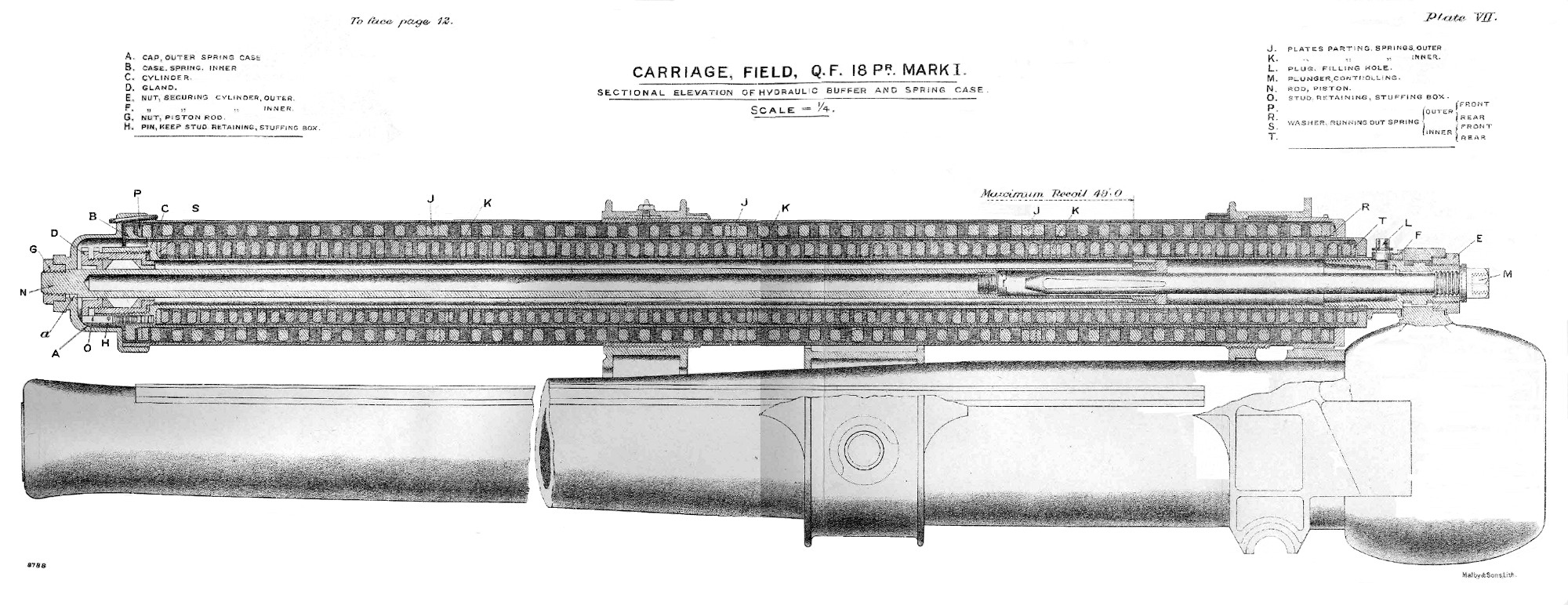 Diagram showing recoil mechanism of British QF 18 pounder field gun.